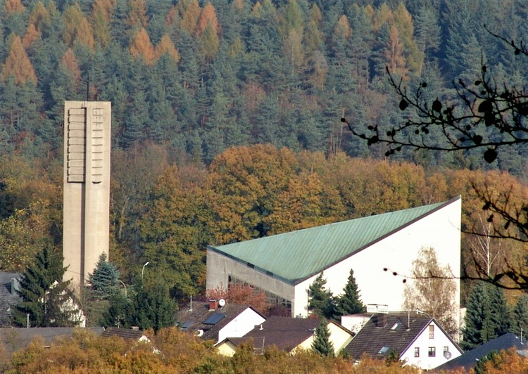 Former church of St. Josef in Mettlach-Keuchingen